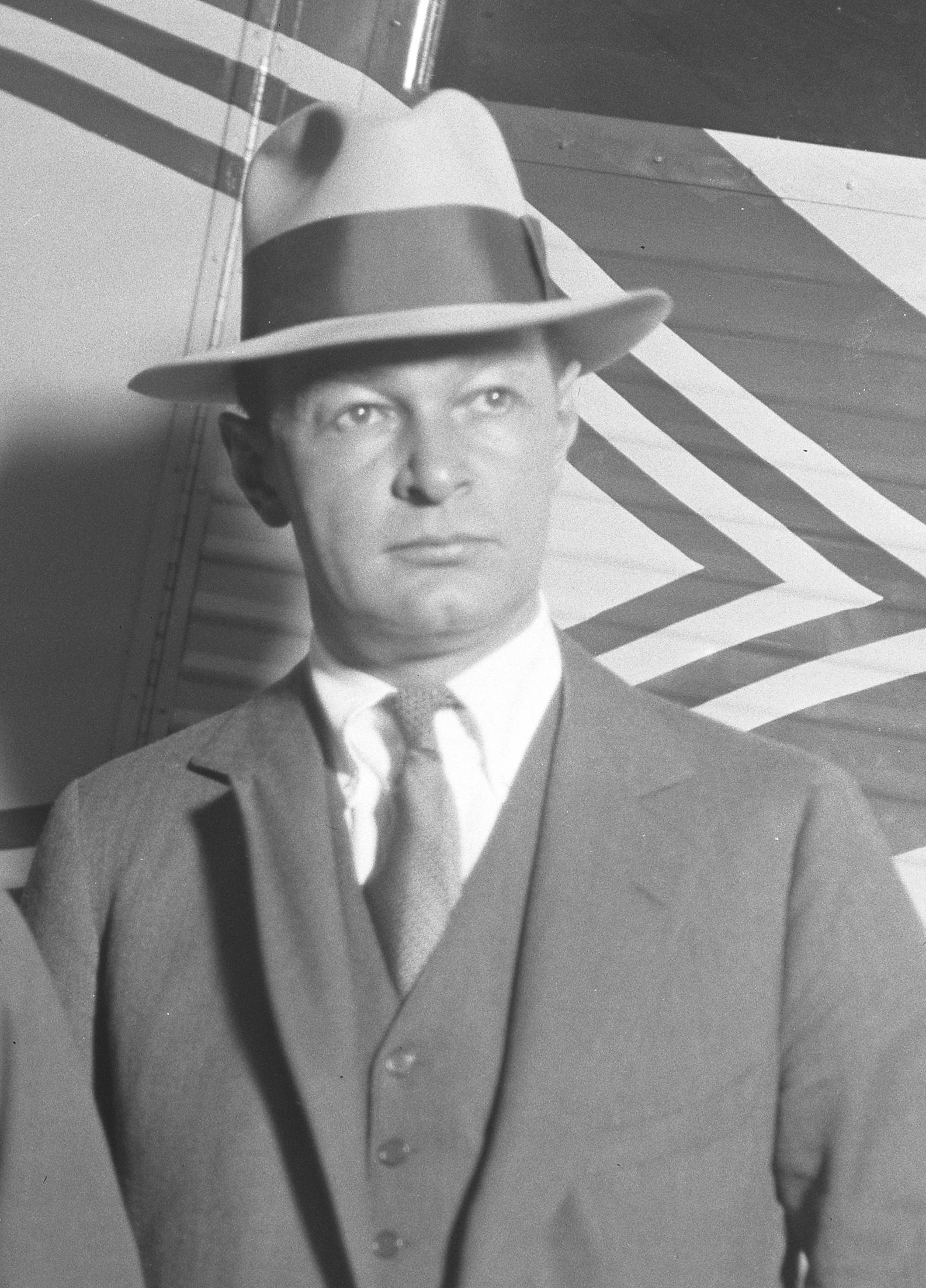 Title: William E. Boeing and Fred Rentschler standing in front of an airplane, 1929